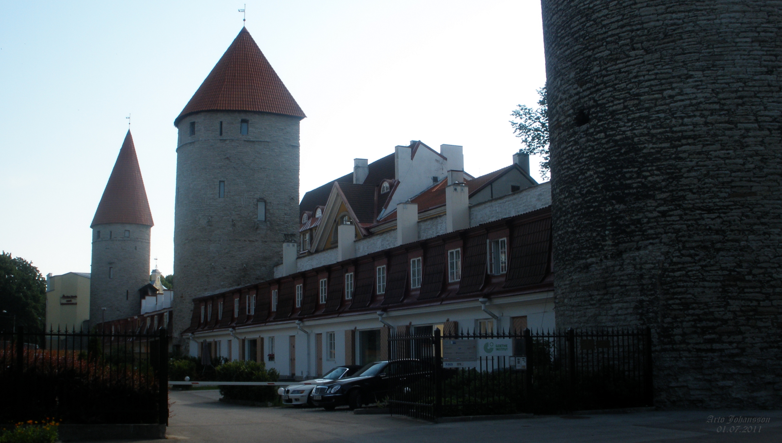 Tallinn, Estonia